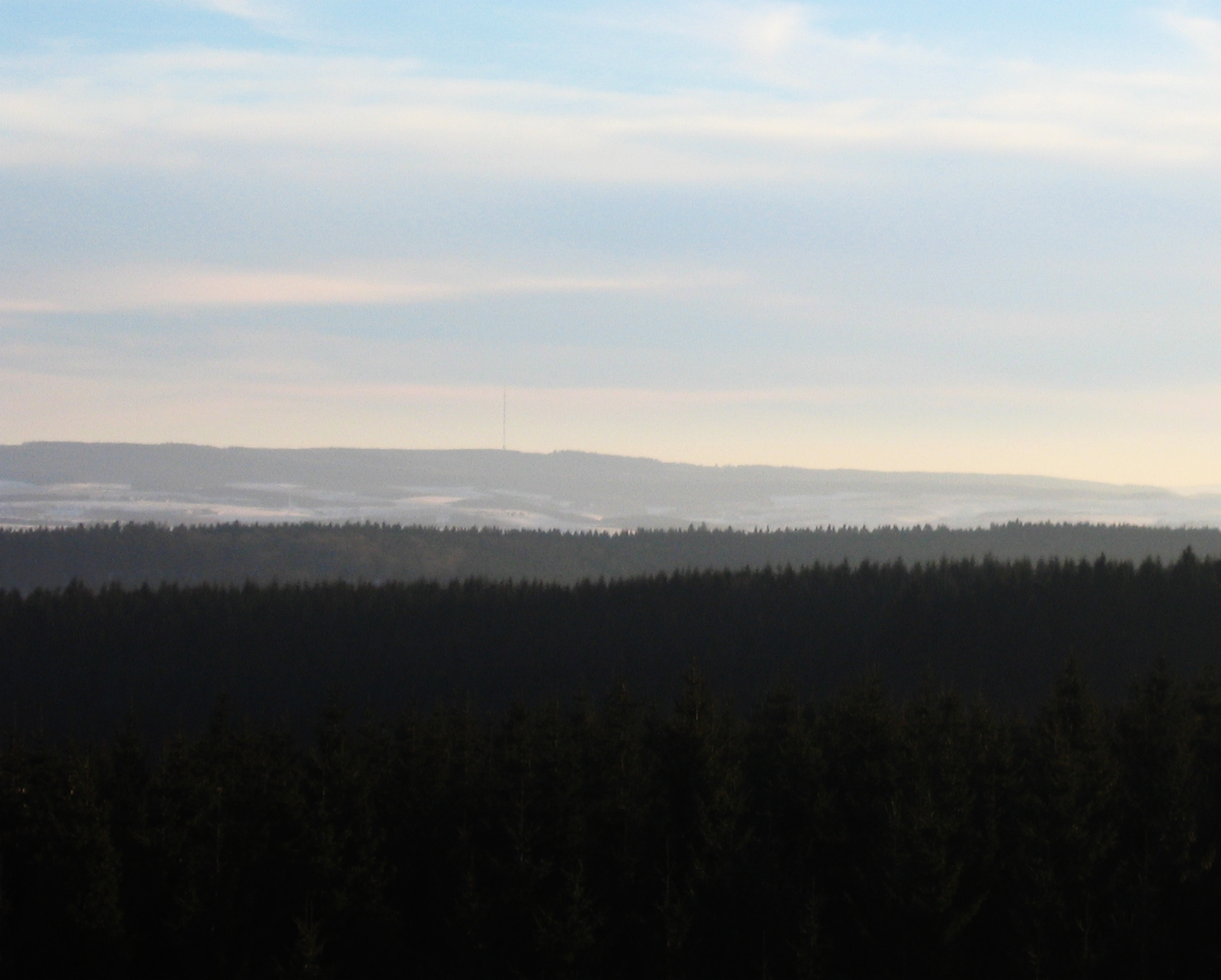 The Schneifel ridge in the Eifel mountains of Germany. In the centre is its highest point, the Schwarzer Mann